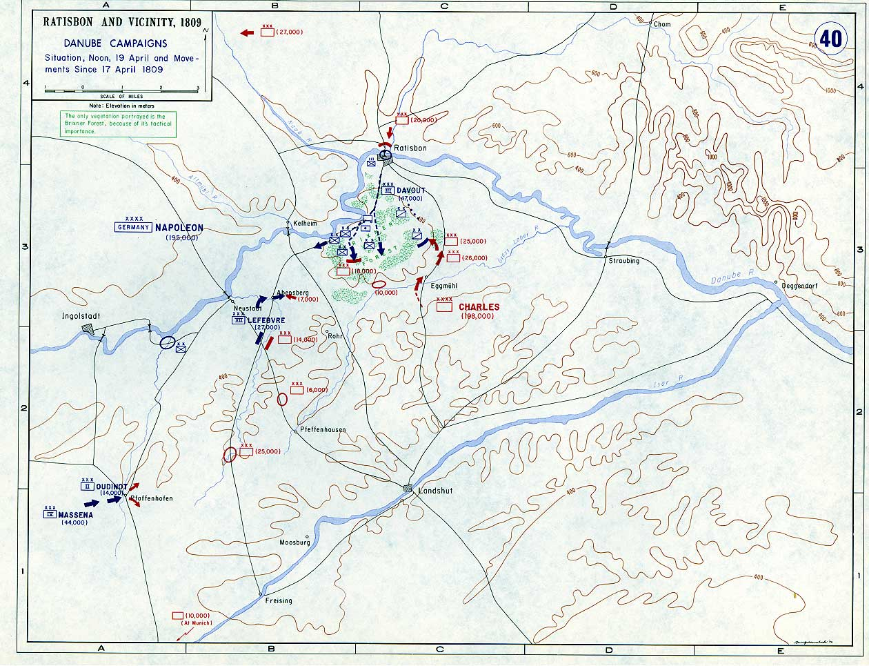 Author: Department of History, United States Military Academy URL: [1]